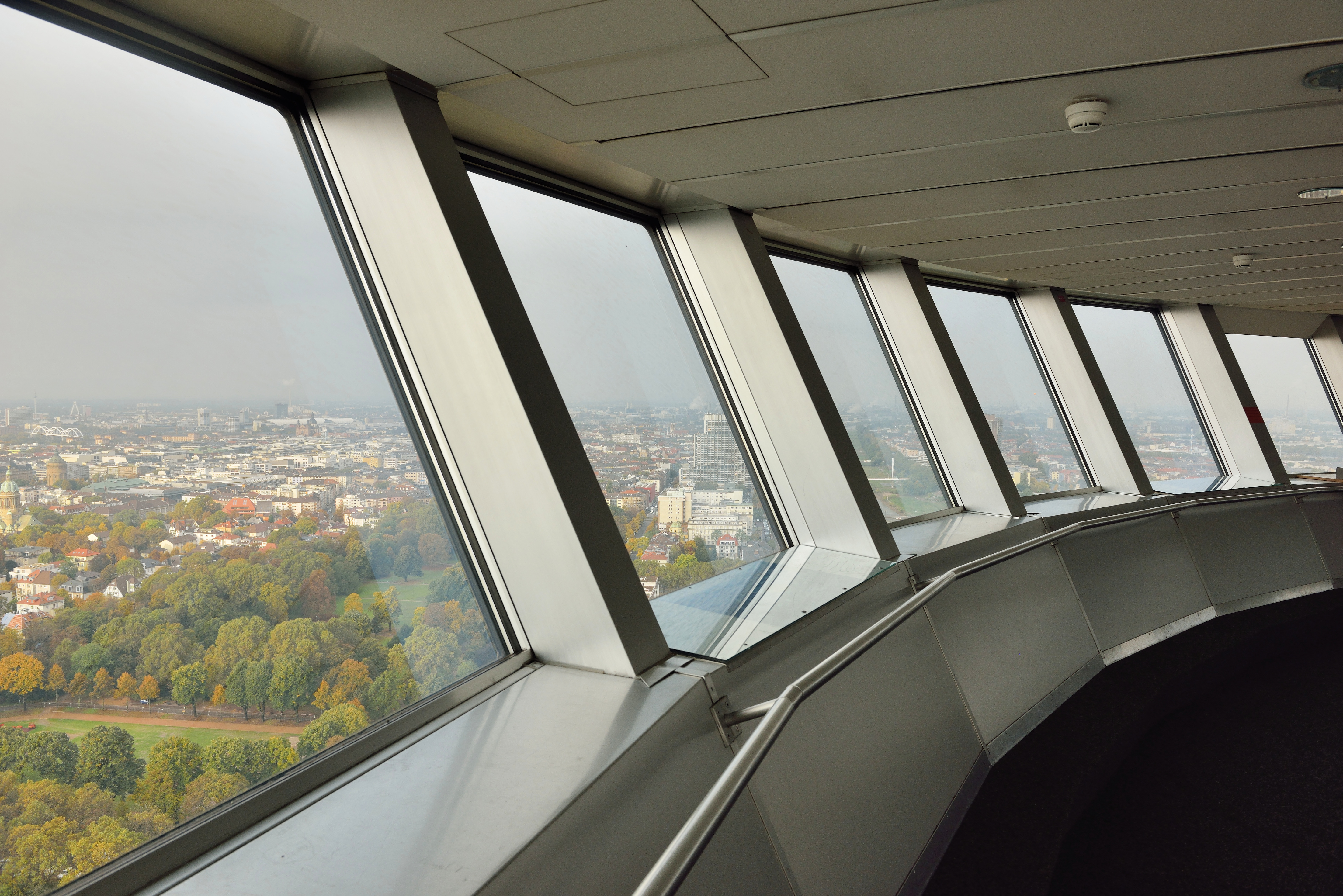 Mannheim television tower